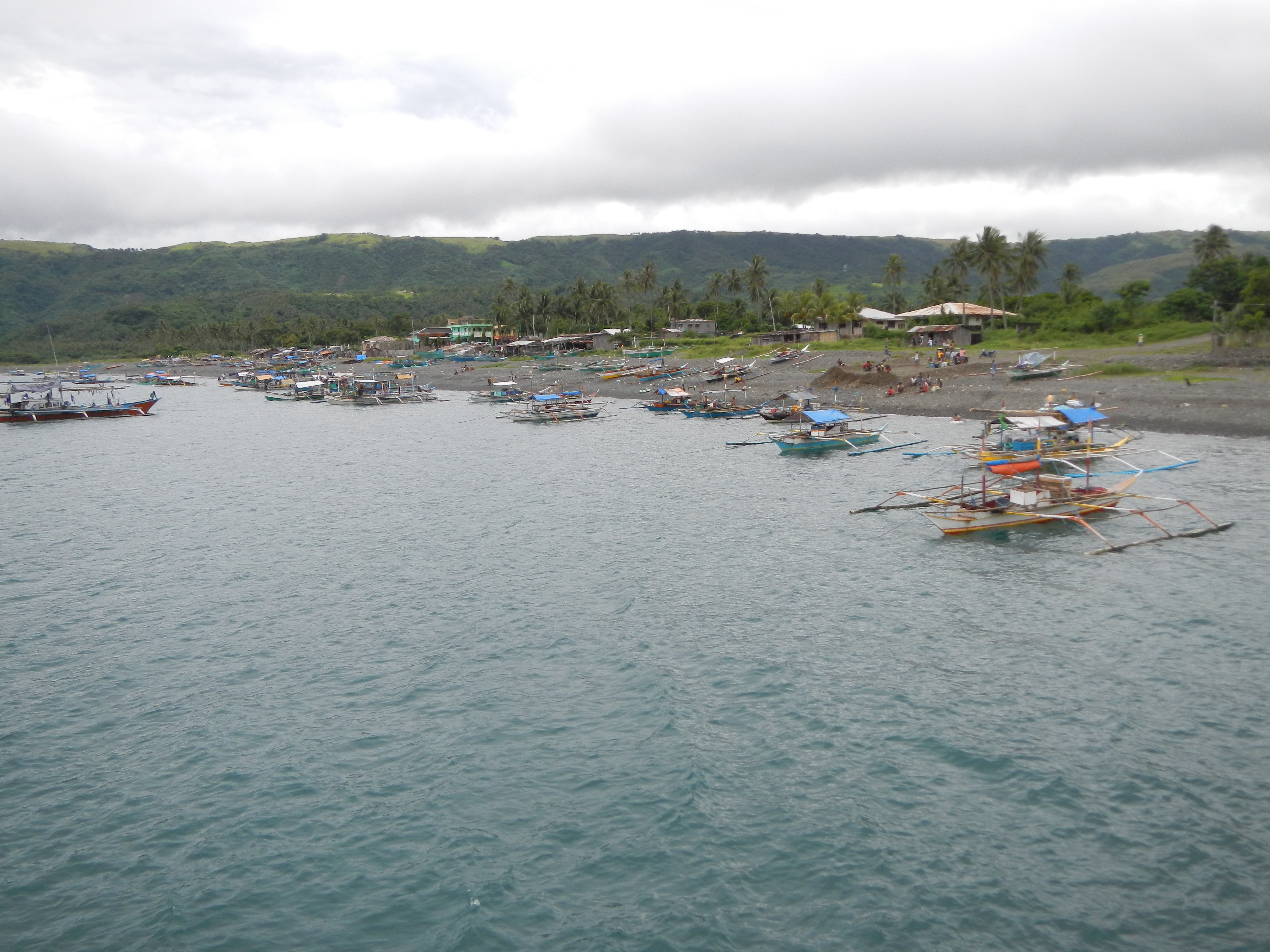 Dingalan fisher-folk, Aurora